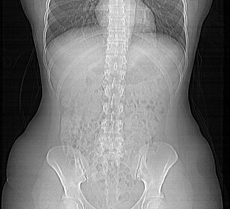 Hip (demonstration picture for DICOM file format)